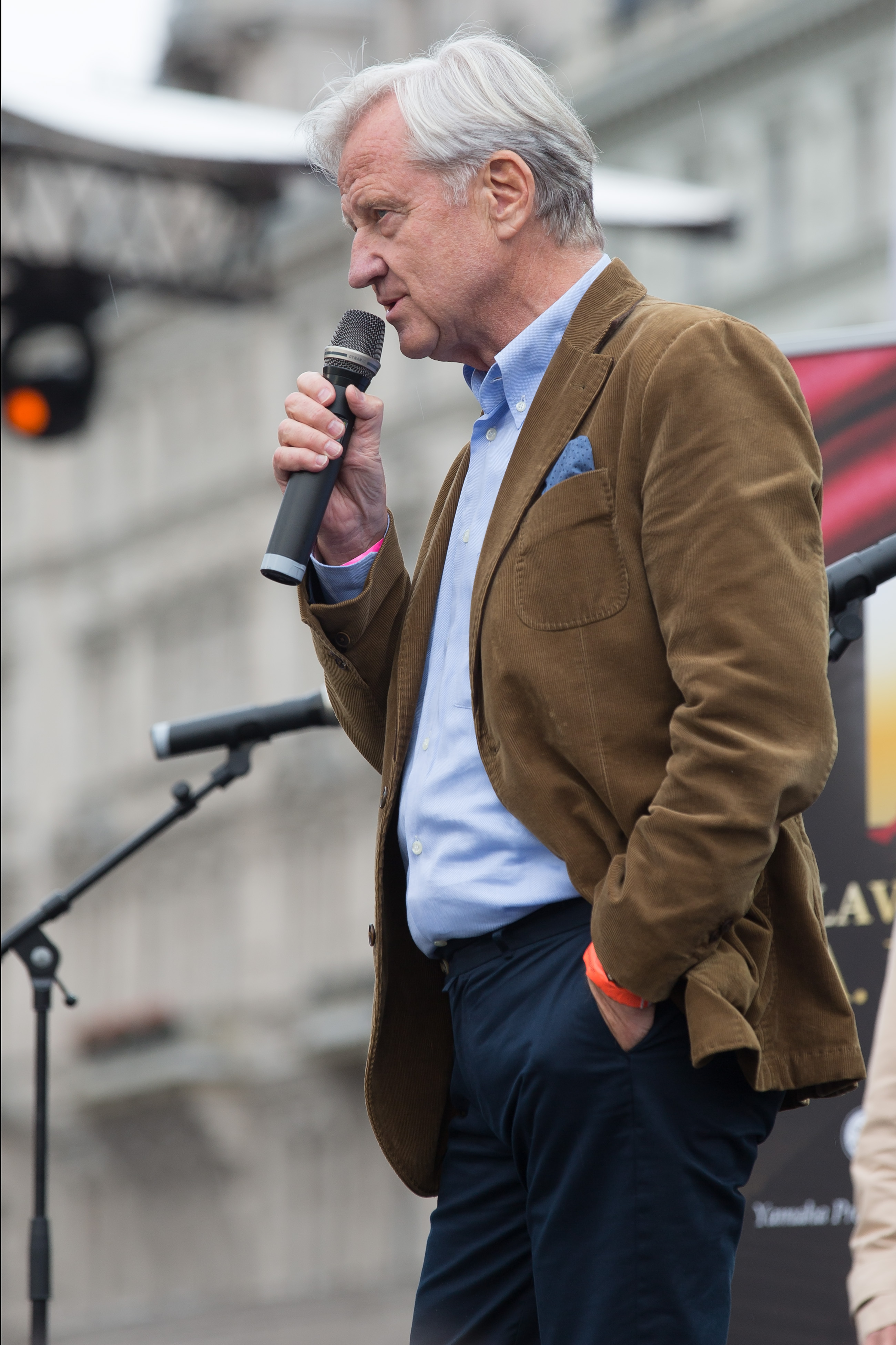 Freddy Burger, the manager of late singer Udo Jürgens, at a tribute to Jürgens in the week before Eurovision Song Contest 2015 at the Eurovision Village on Rathausplatz in Vienna, Austria.